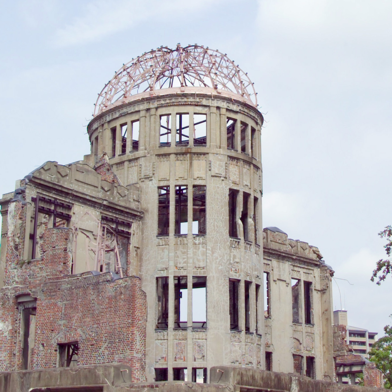 Atomic bomb dome (Genbaku Dome), Hiroshima, Japan. I took the photo.